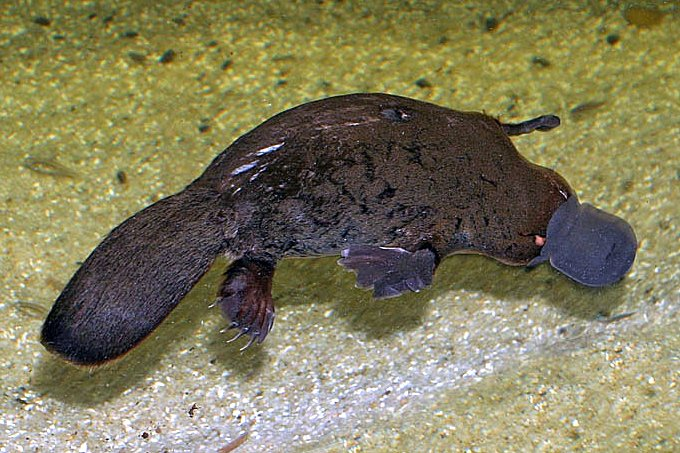 Platypus is a mammal with a beaver tail and a duckbill.